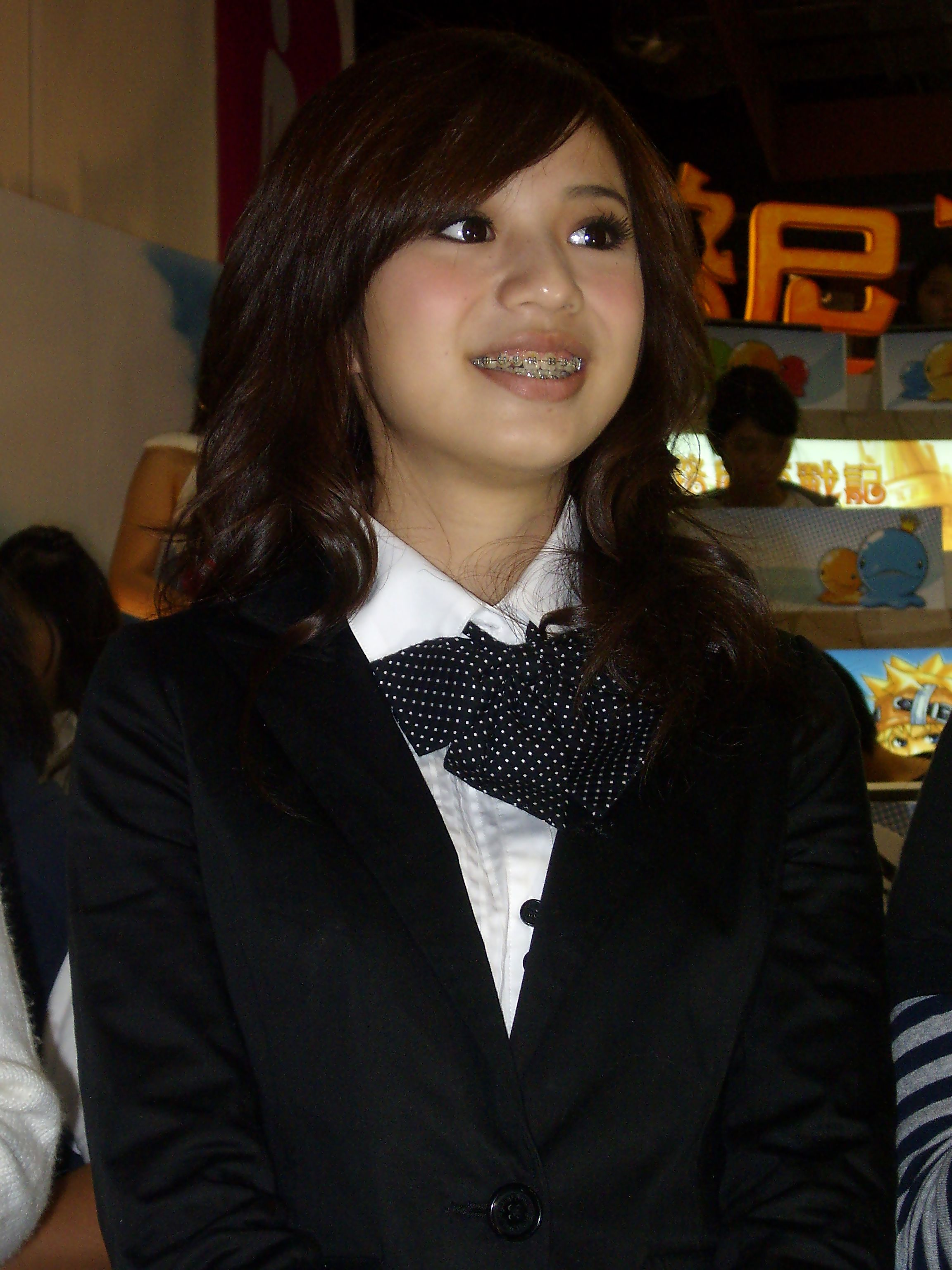 2007 Taipei IT Month: "Mini" Xiao-chieh Chang, a member from Hei Se Hui Mei Mei.